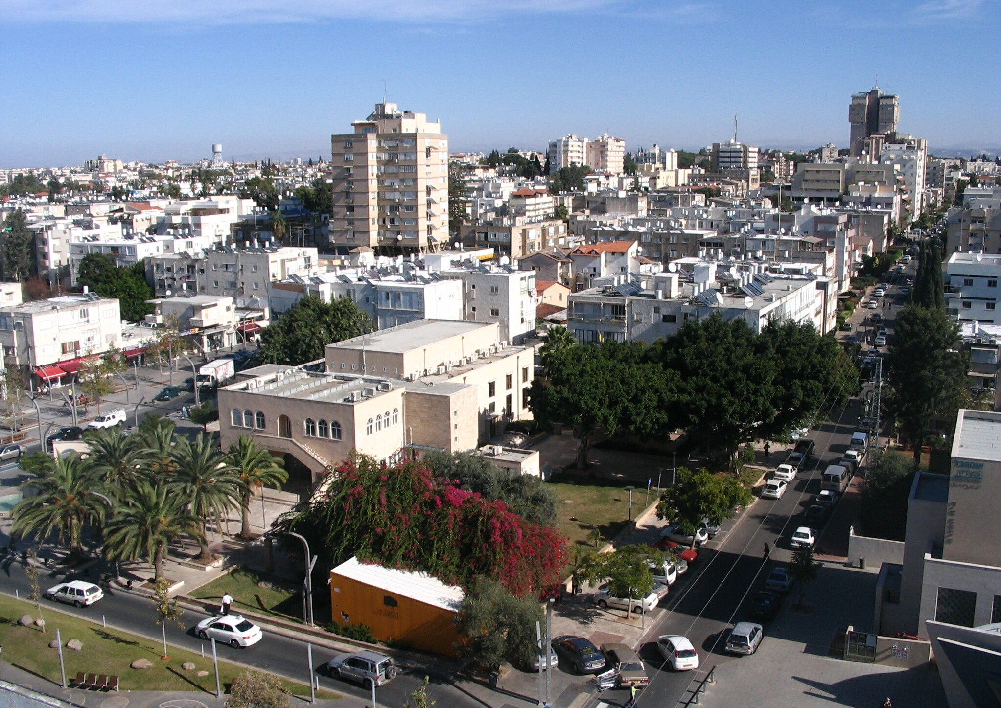 Top view of the city center in Herzliya, Israel, to the east.